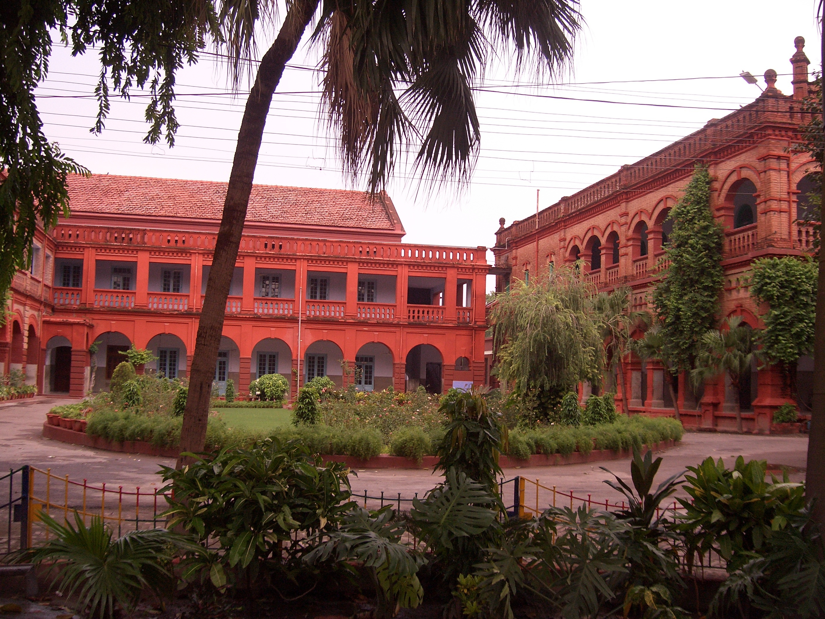 Methodist High School, Kanpur, Senior Section Photo